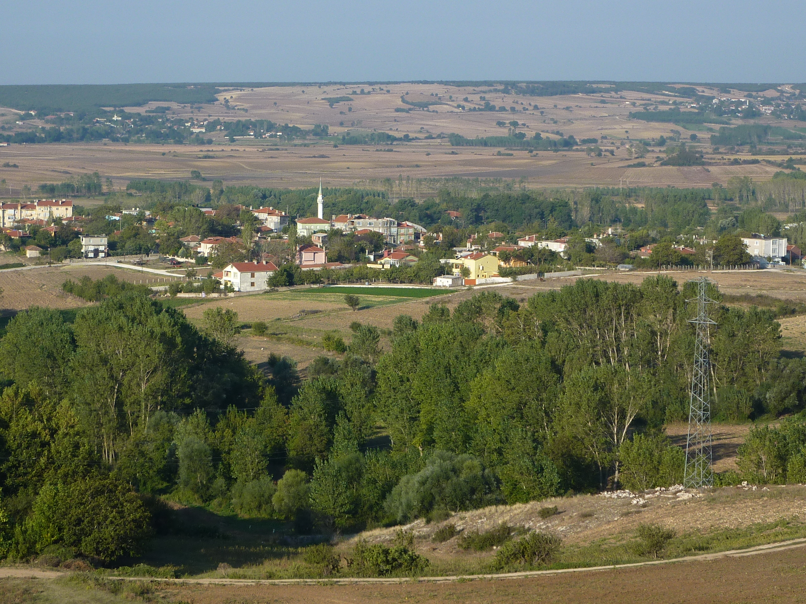 A morning view of the city of Vize and surrounding countryside from a hill north of town